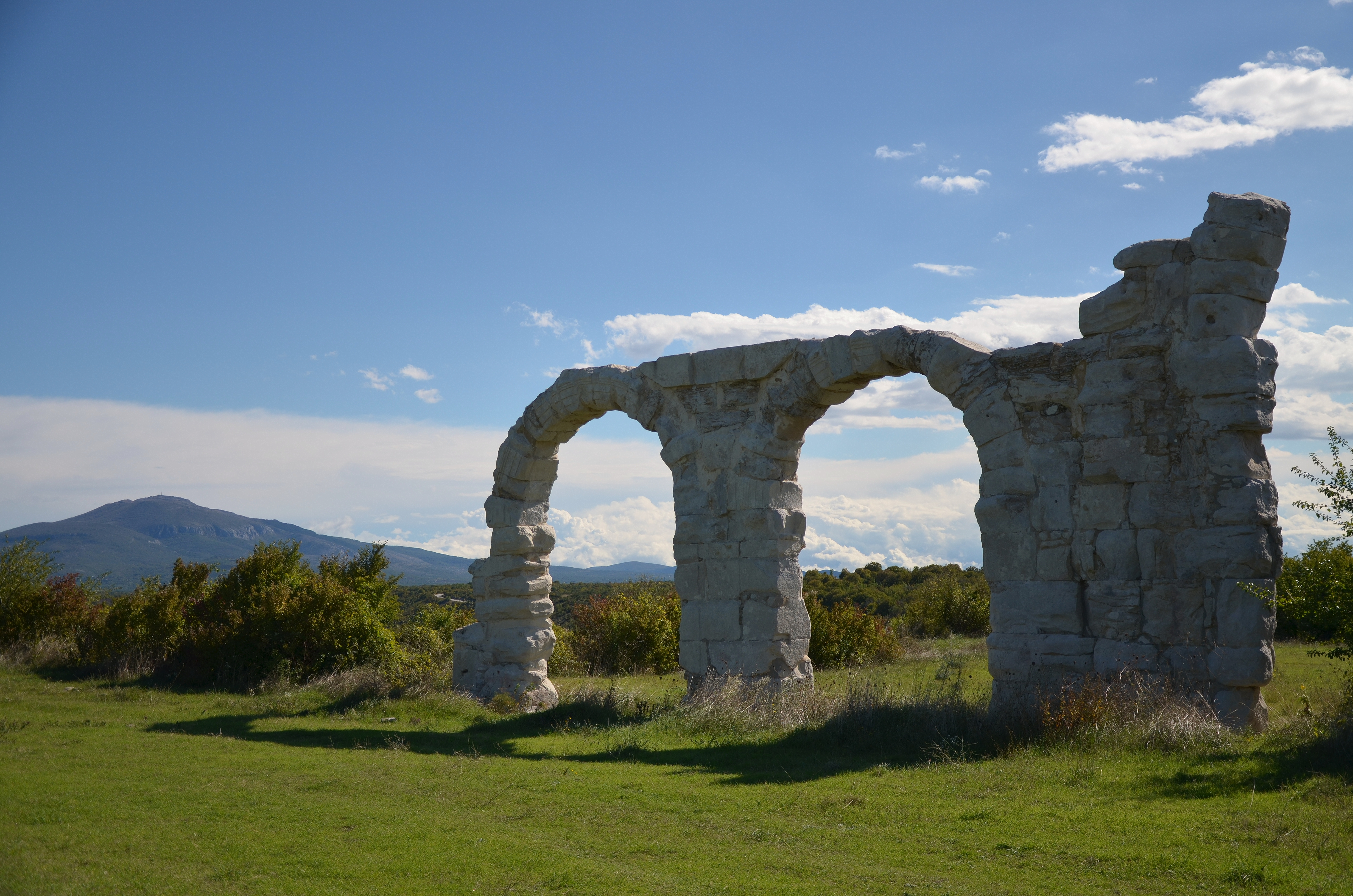 Arches of the Burnum principium (or Forum), Burnum legionary camp, Dalmatia